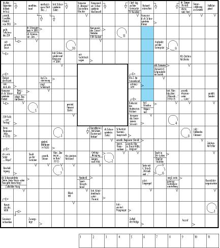 German-style cross-word